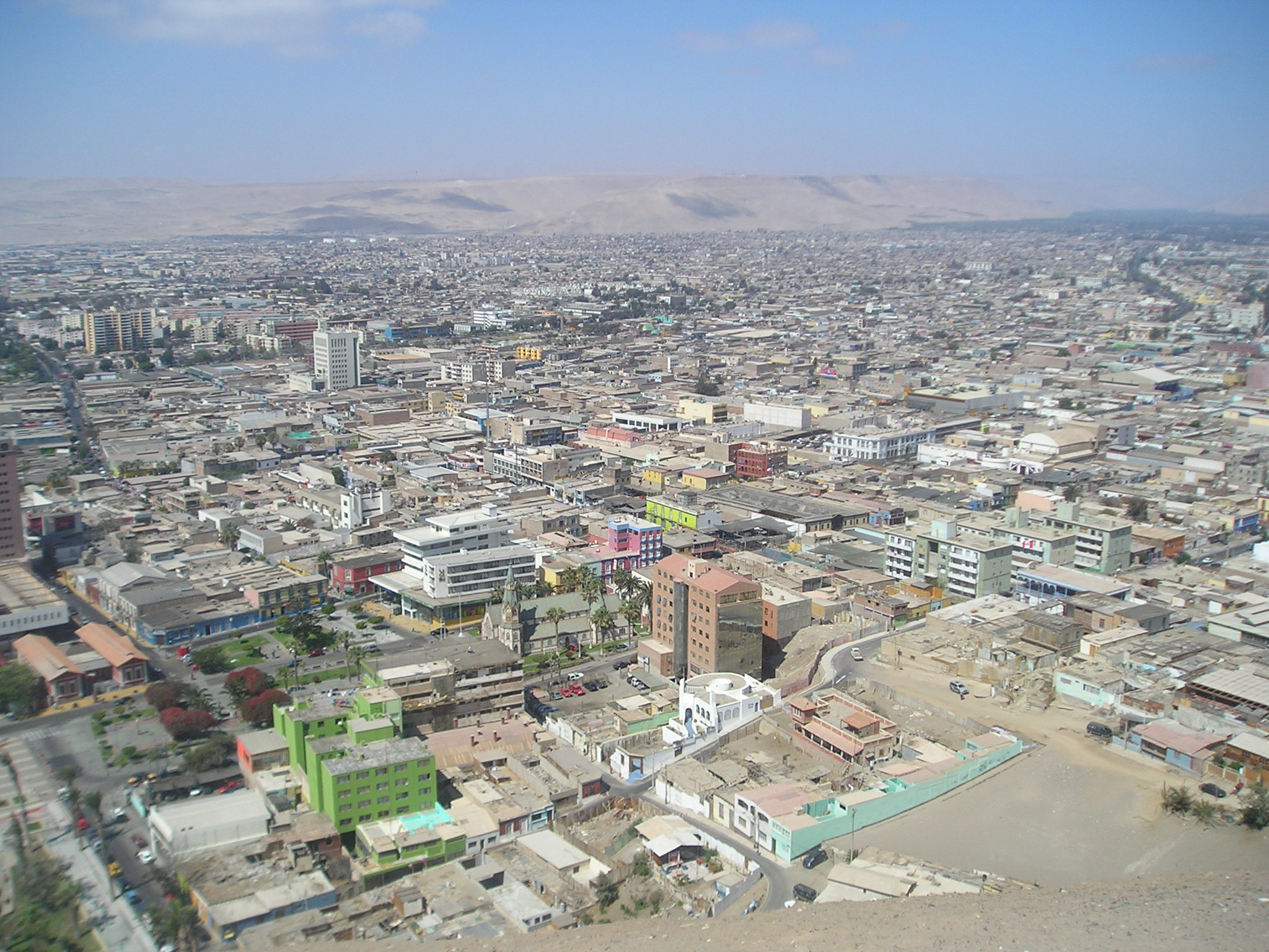 Arica, Chile - a view from El Morro to east parts od the city. Azapa valley starts at the upper right corner